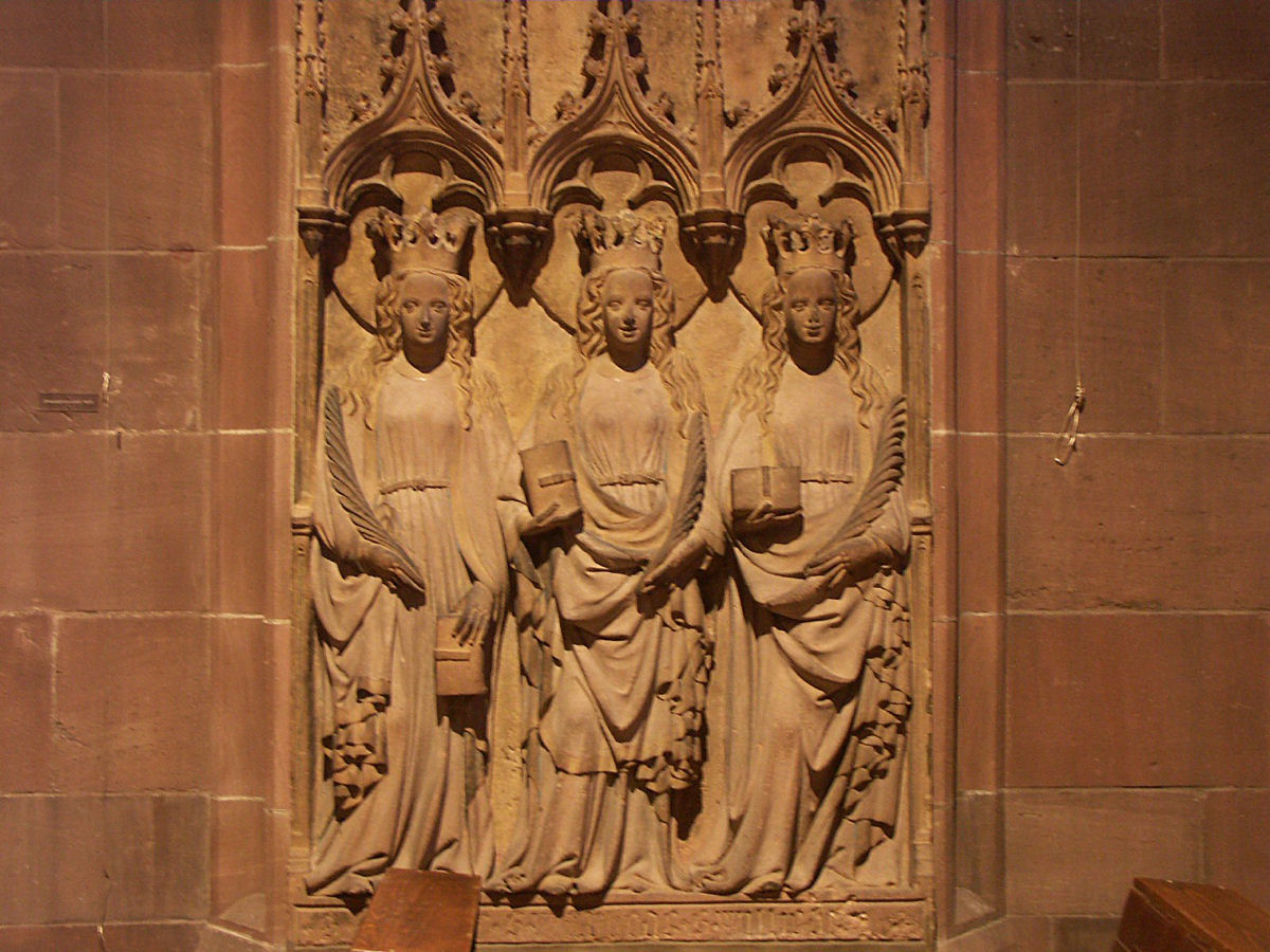 Cathedral St. Peter (Dom St. Peter), Worms, Germany